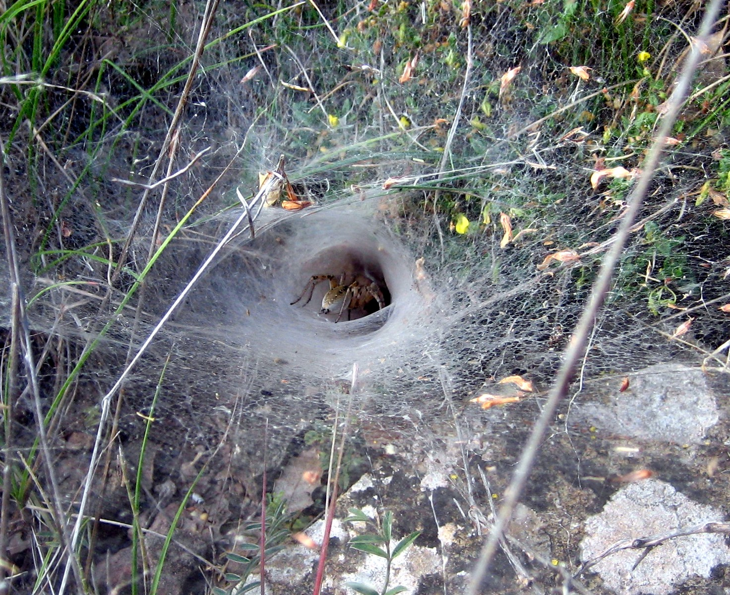 Spider web at Formiche Alto (Teruel, Spain)